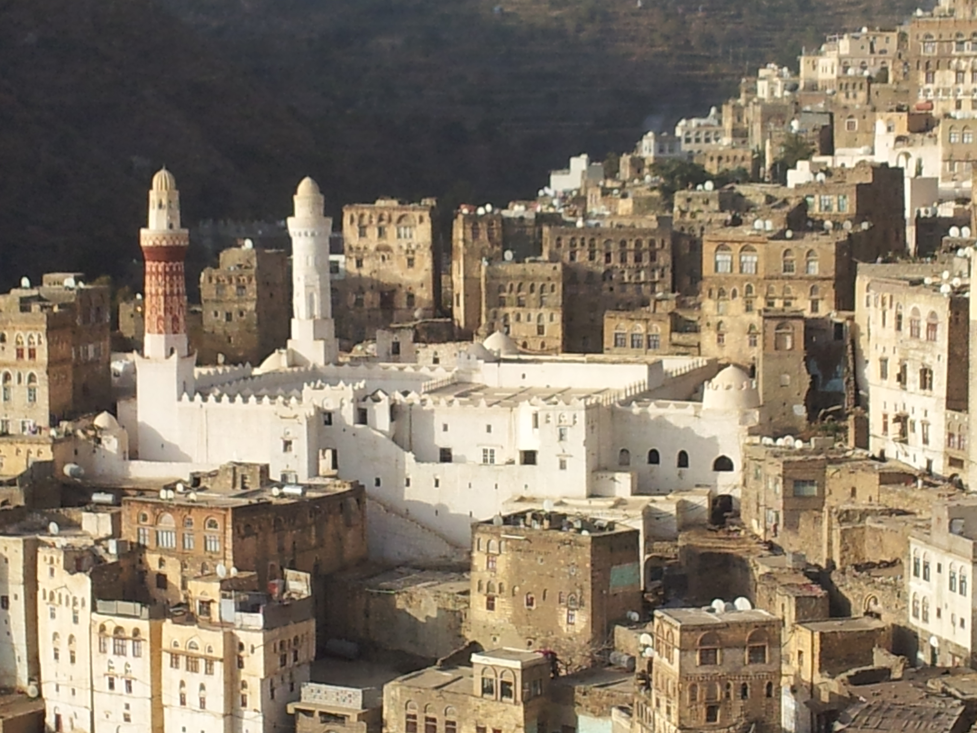 Queen Arwa al-Sulayhi Masjid